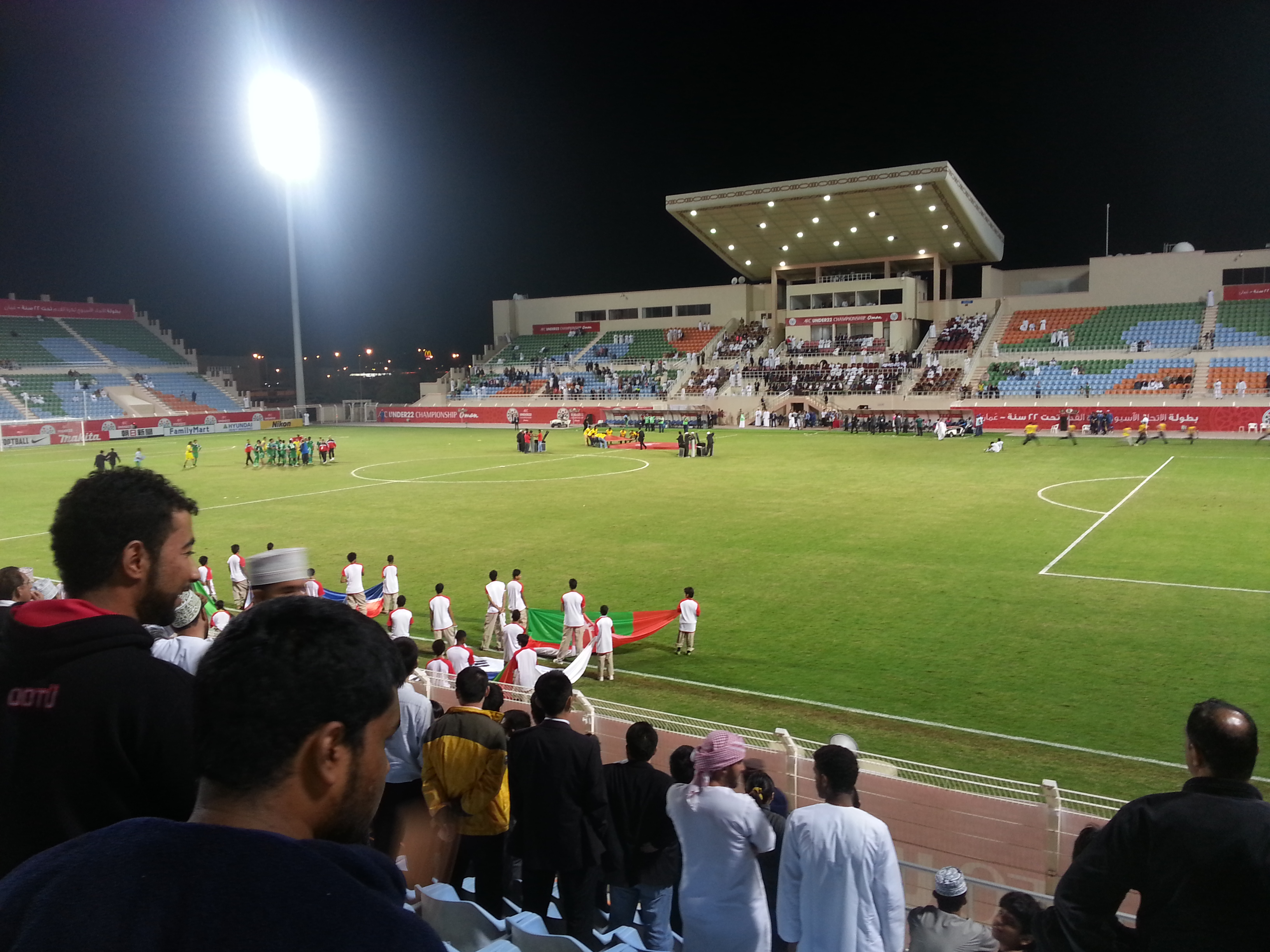 احدى البطولات التي استضافها استاد السيب